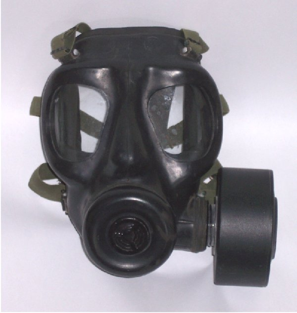 S6 NBC Respirator gas mask with NATO standard filter attached